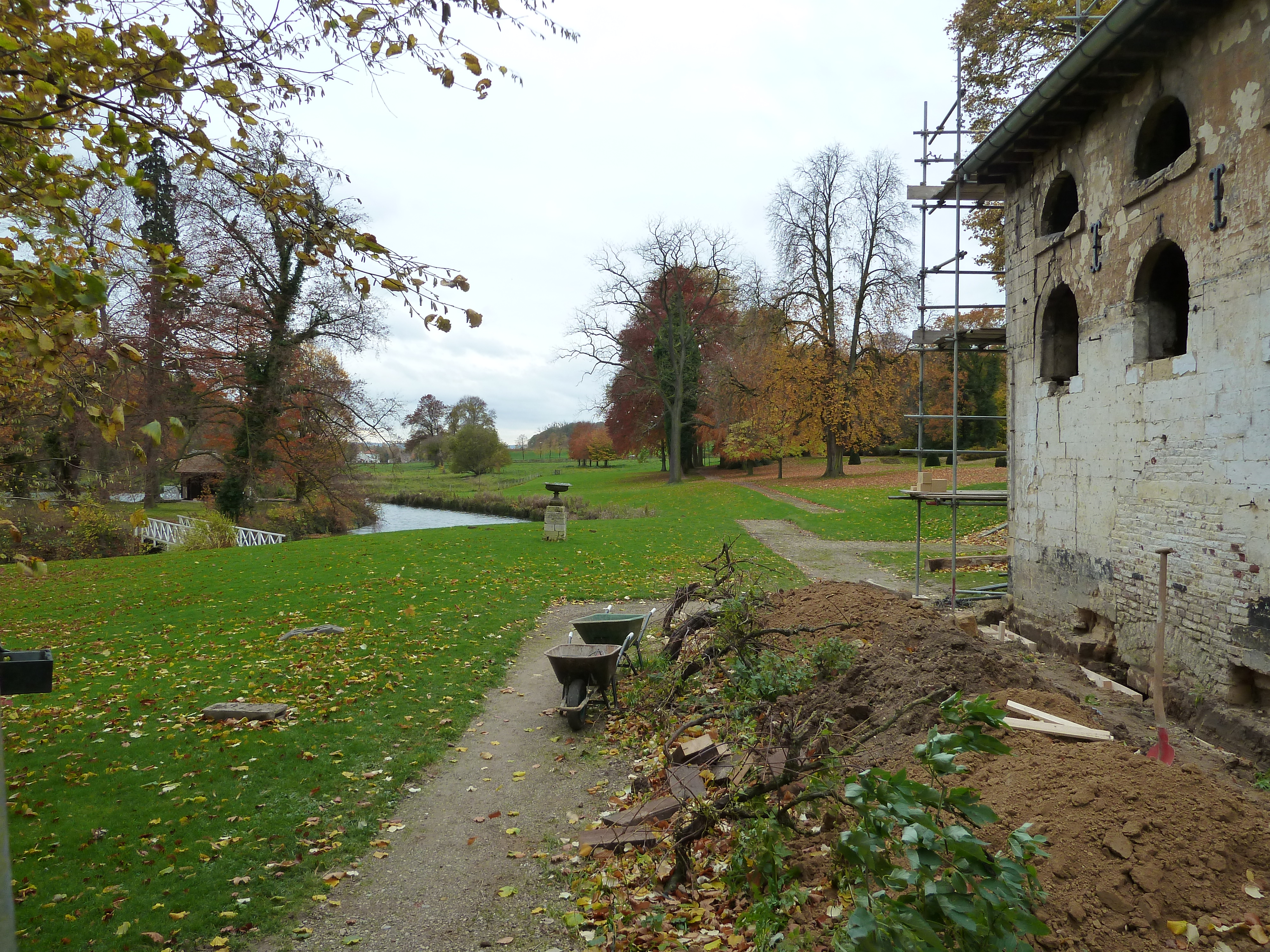 Castle Vliek, Ulestraten, Limburg, the Netherlands